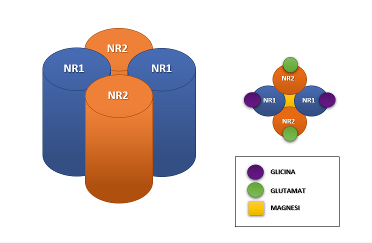 NMDA NR1/NR2 structure.